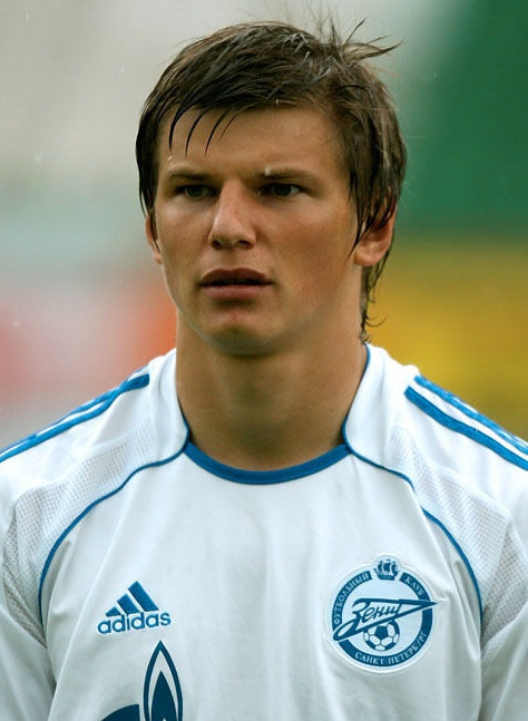 Andrey Arshavin of Zenit